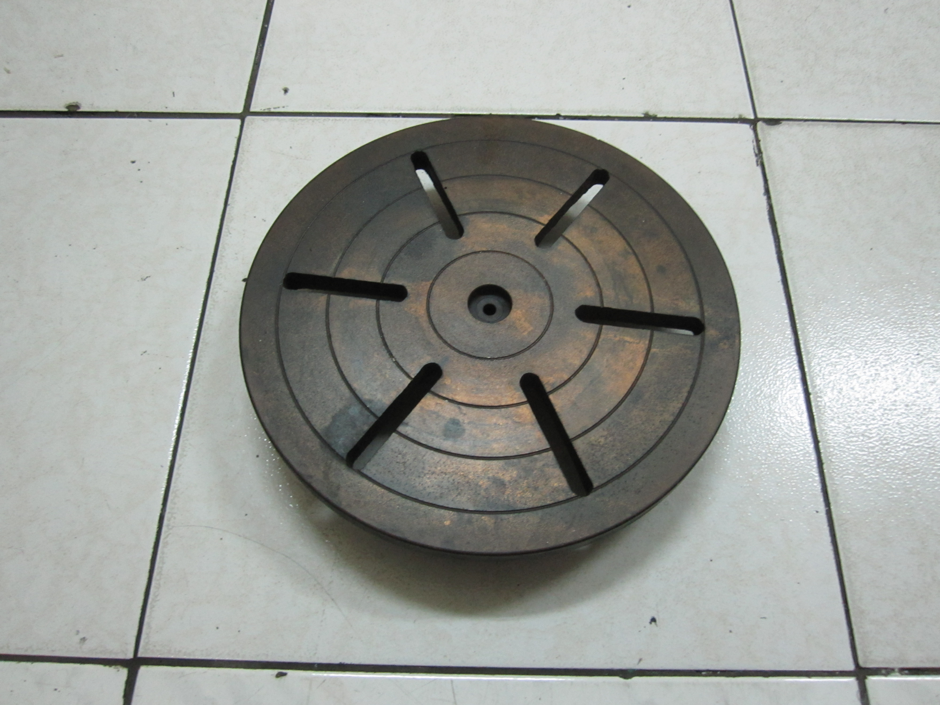 Faceplate